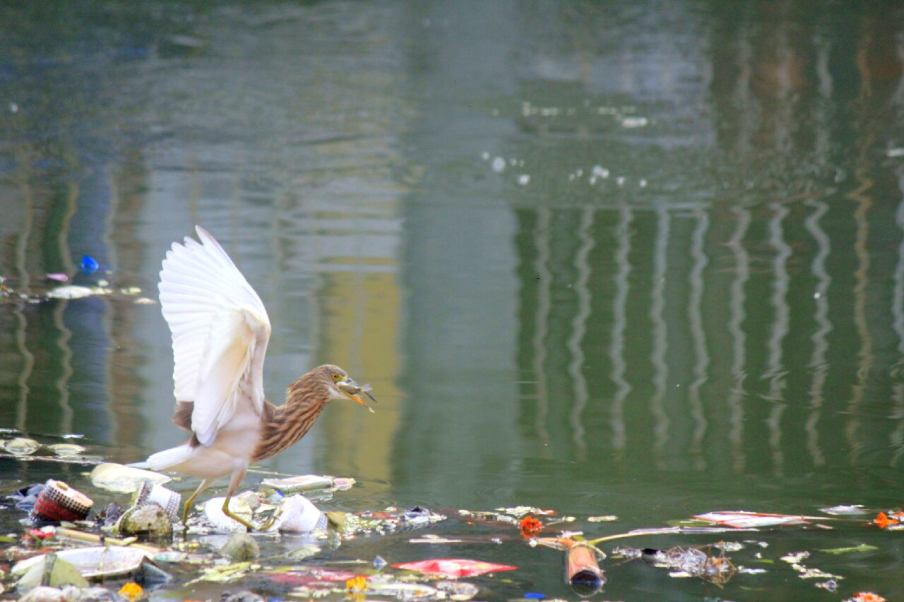 Indian Pond Heron with prey at Sakherbazar, Kolkata